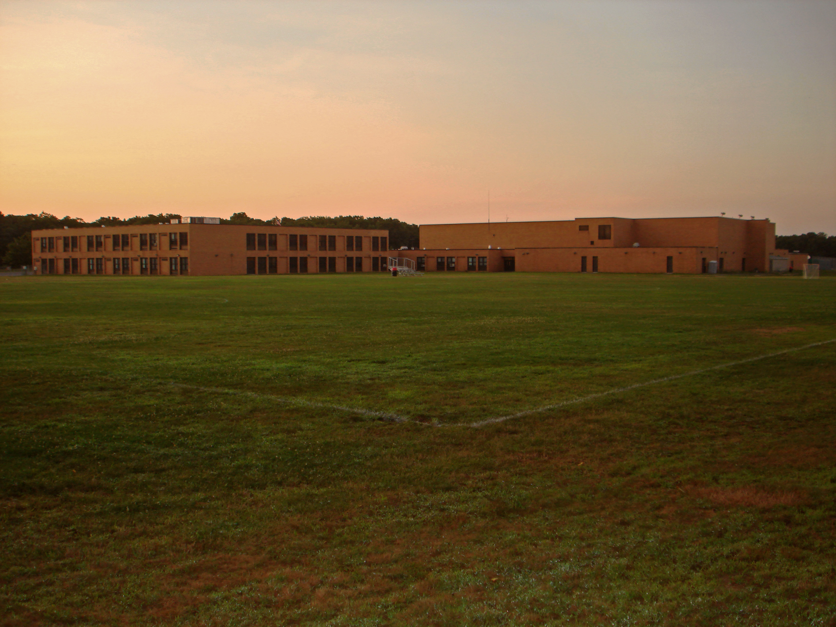 Miller Place High School, as seen from one of the athletic fields in Miller Place.